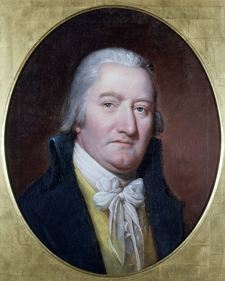 Portrait of Dr. David Ramsay, painted in 1796 by seventeen-year-old Rembrandt Peale (1778–1860) in Charleston, South Carolina.